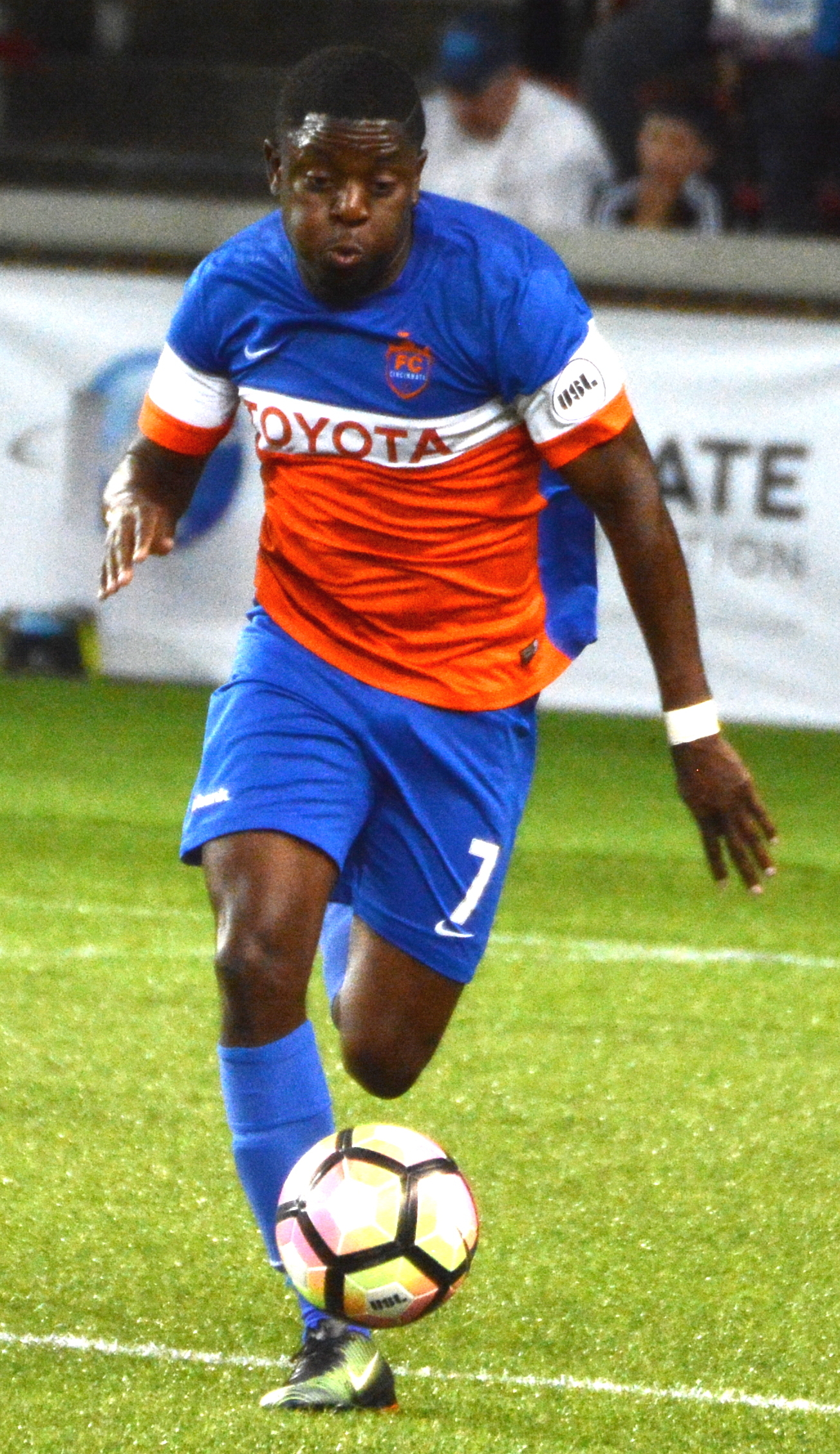 Kadeem Dacres Taken during a match between FC Cincinnati and Tampa Bay Rowdies at Nippert Stadium in Cincinnati, USA on April 19, 2017.